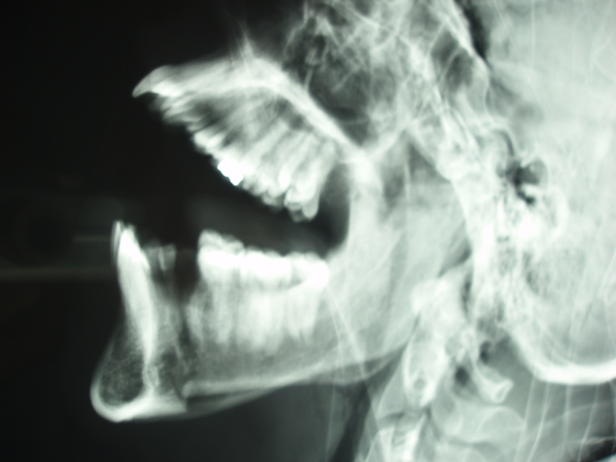 Fractured jaw